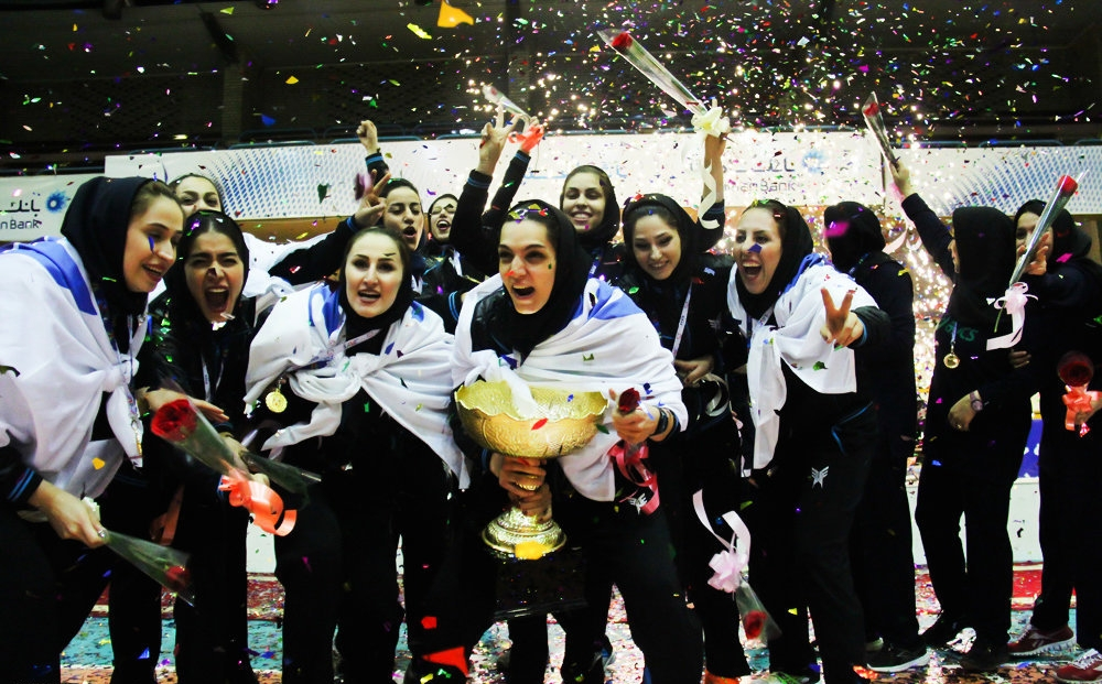 League-Volleybal-Iran-1393